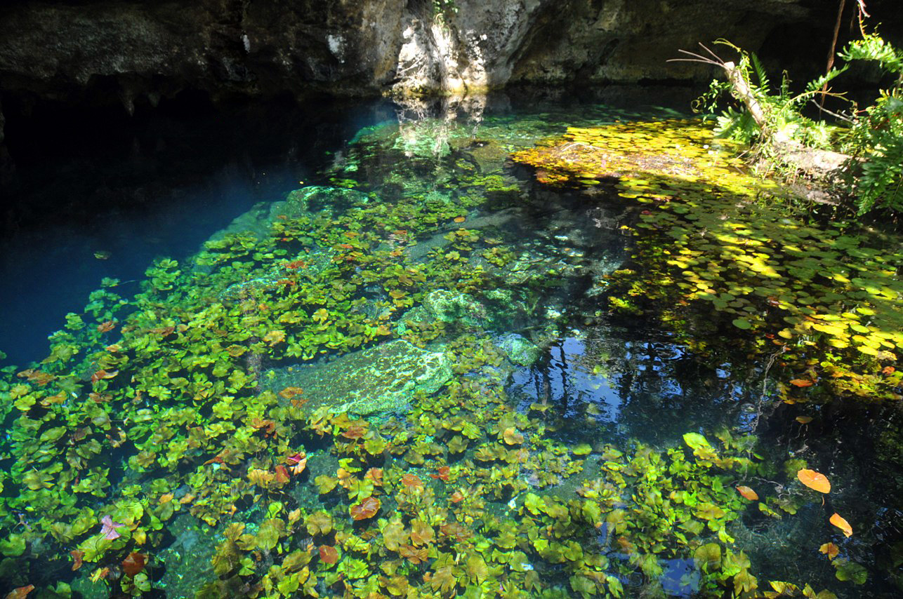 Grand Cenote, Tulum